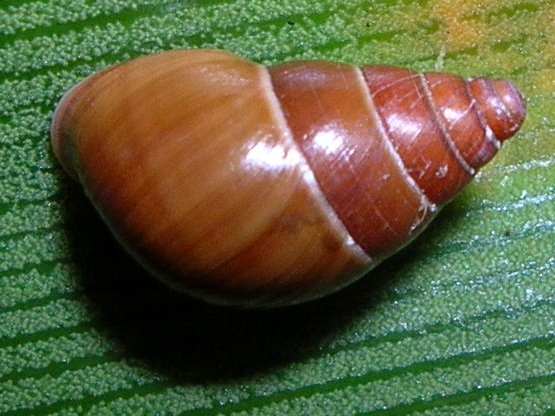 an unidentified species Auriculella from Makawao Forest Reserve Maui, Hawaii